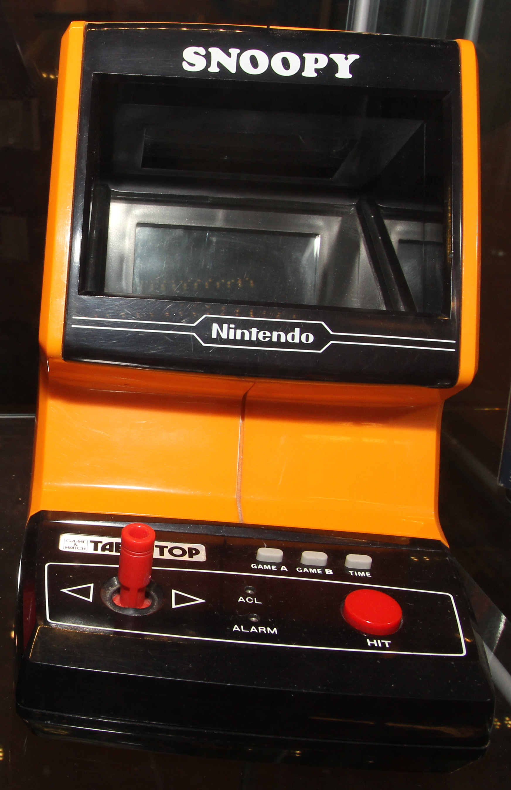 Tabletop Snoopy Game & Watch in Helsinki Computer and game console museum